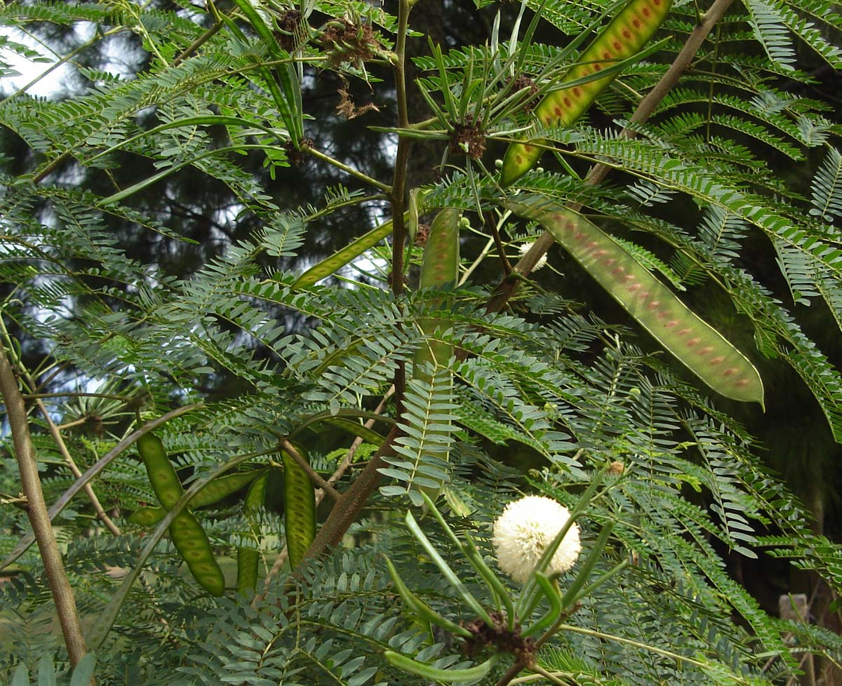 Leucaena glauca (siale mohemohe) on Tongatapu